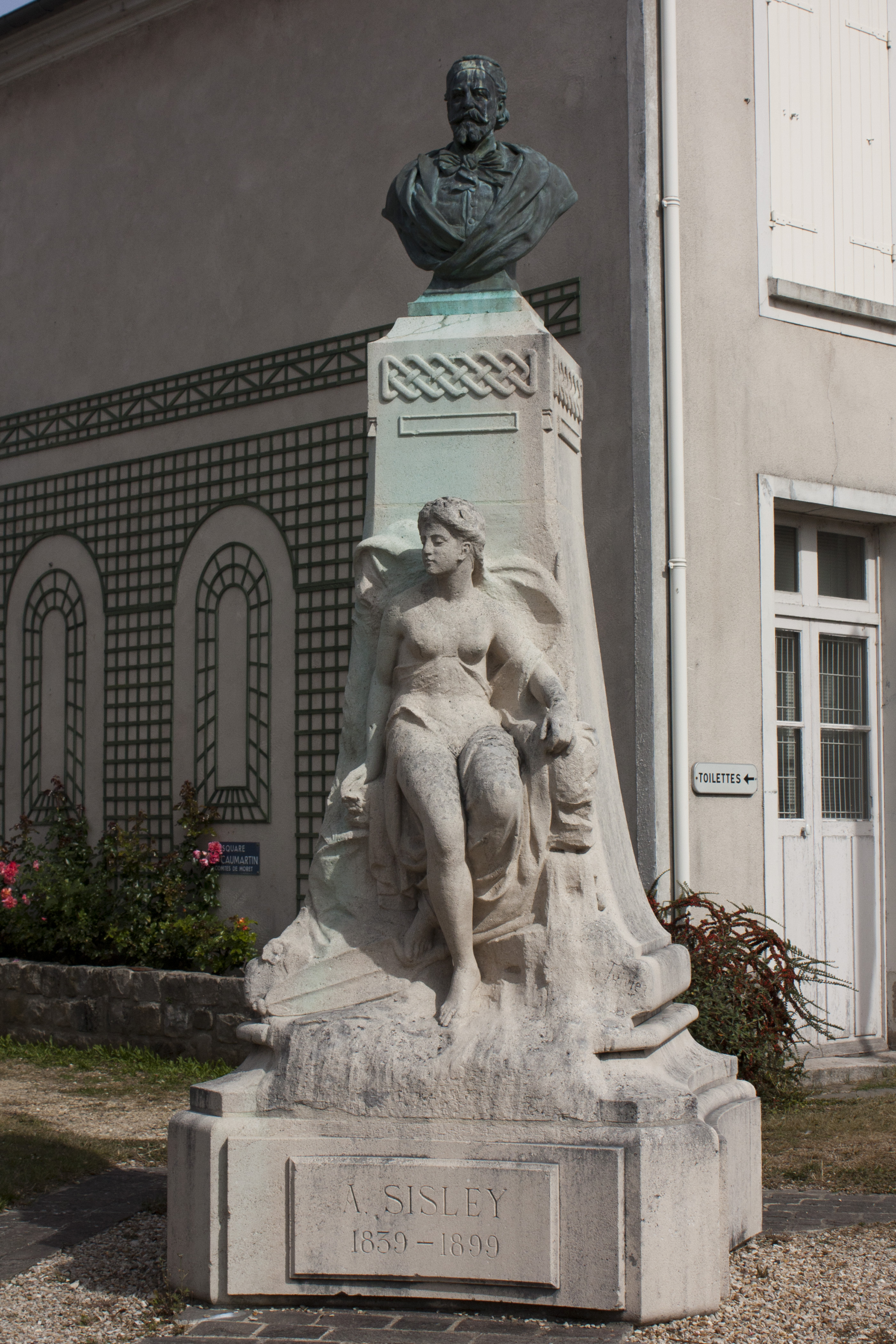 Monument, tribute to Alfred Sysley.